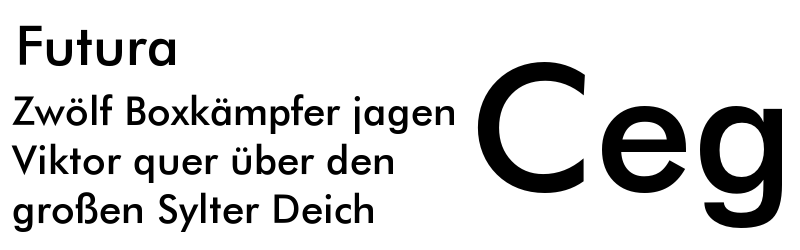 german pangram in typeface Futura